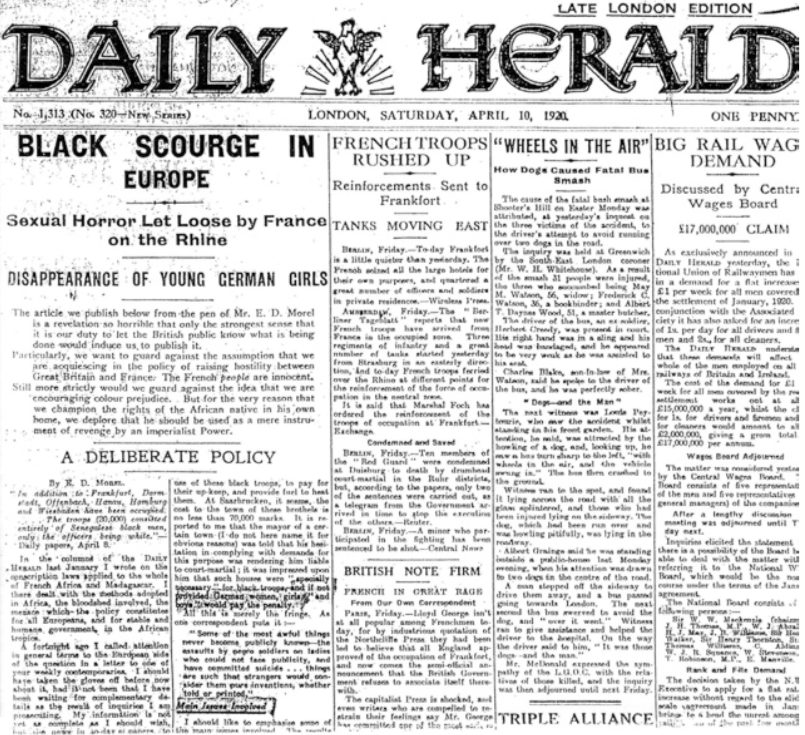 Banner of newspaper featuring Morel's "Black Scourge" article